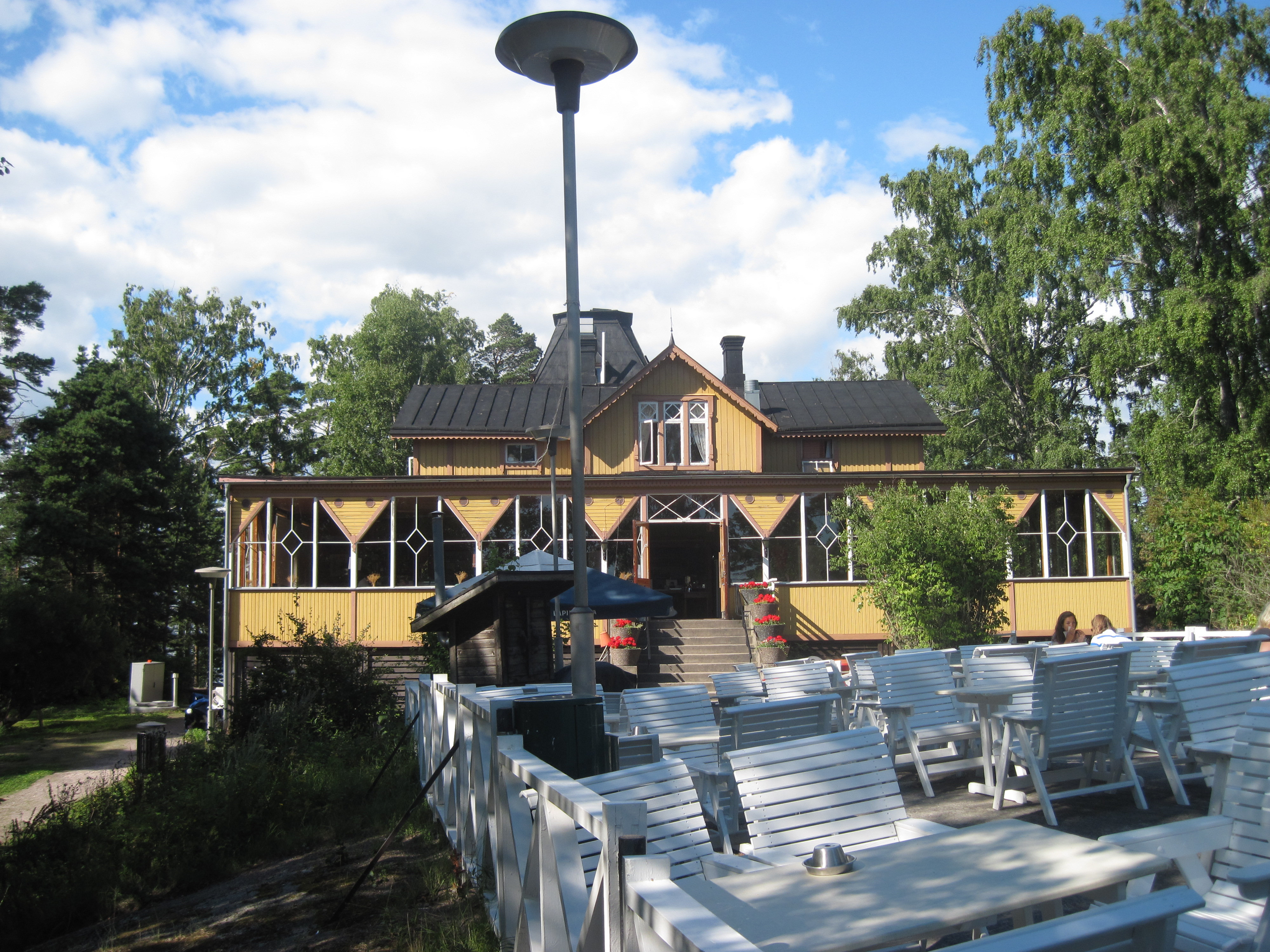 Summer restaurant (Villa Hällebo) in Pihlajasaari, Helsinki, Finland